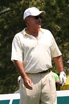 Al Michaels playing golf